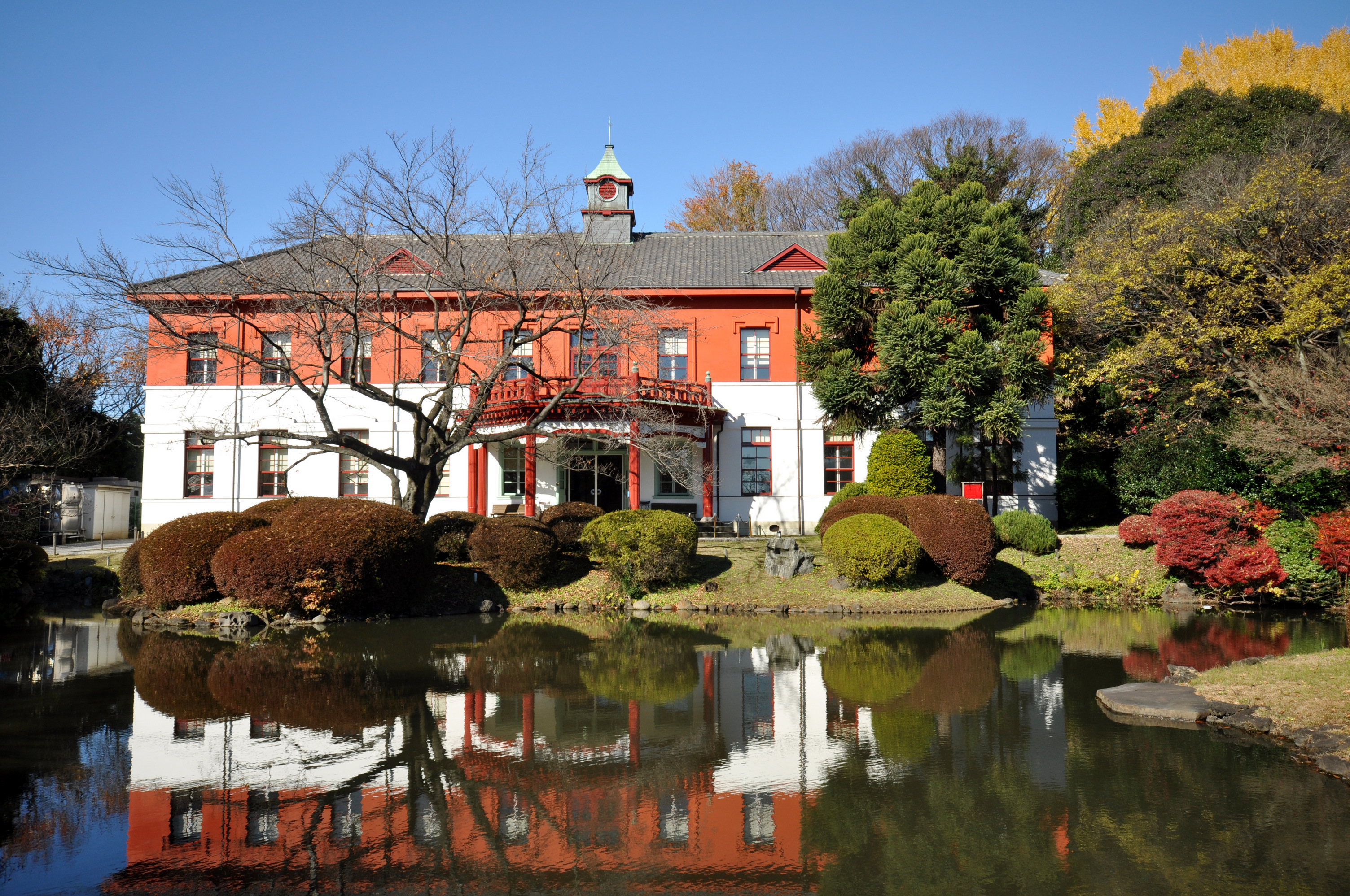 Koishikawa Annex, The University Museum, The University of Tokyo, at Koishikawa Botanical Gardens, Bunkyo Tokyo Japan, built in 1876.